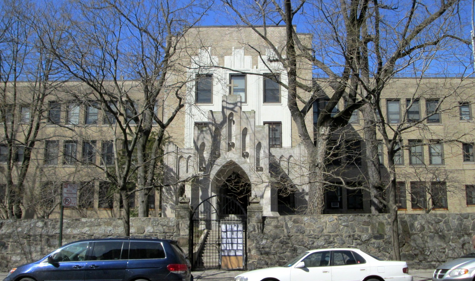 Mother Cabrini High School at 701 Fort Washington Avenue in the Hudson Heights neighborhood of Washington Heights, Manhattan, New York City is a Roman Catholic secondary school for girls founded in 1899 by Frances Xavier Cabrini and sponsored by the Missionary Sisters of the Sacred Heart of Jesus. The current facility was built in 1930. (Sources: School website and NYC GIS map)